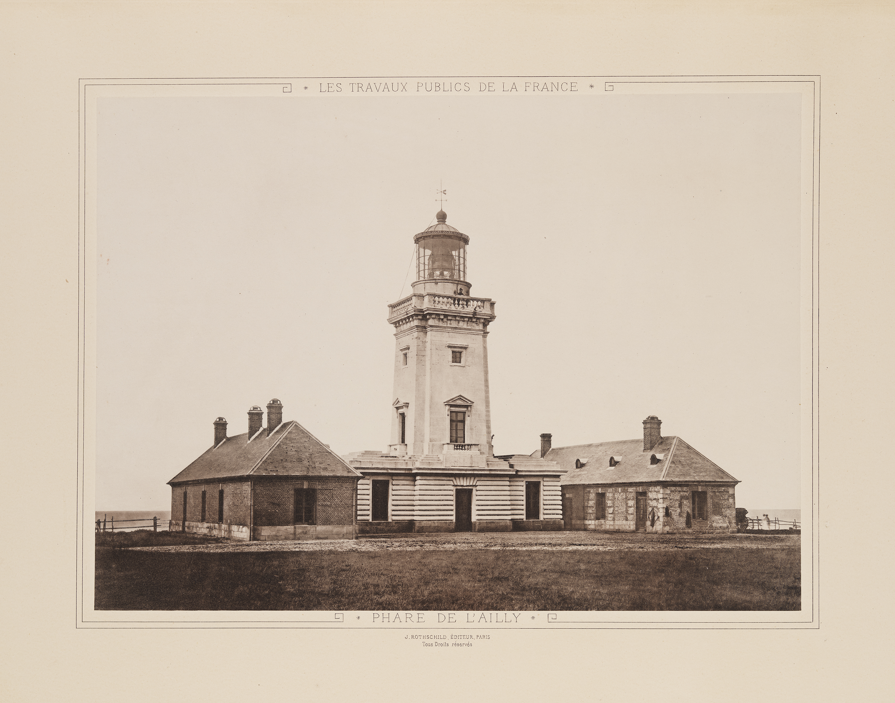 Title: Phare de L'Ailly Alternative Title: L'Ailly Lighthouse Creator: Duclos, Jules Date: 1883 Series: Tome Cinquieme: Phares et Balises Place: Sainte-Marguerite-sur-Mer, Seine-Maritime, France Description: The full title of the five-volume set is, Les travaux publics de la France par MM. F. Lucas et V. Fournie - Ed. Collignon - H. de Lagrene - Voisin Bey - E. Allard. Ouvrage publie sous les auspices de Ministere des travaux publics et sous la direction de M. Leonce Reynaud. This photograph is one of 50 plates in Public Works of France, Volume Five: Lighthouses and Beacons. Physical Description: 1 photographic print: collotype; 26 x 35 cm on 40 x 56 cm mount File: vault_folio_2_ta71_a4_1883_5_05_opt.jpg Rights: Please cite DeGolyer Library, Southern Methodist University when using this file. A high-resolution version of this file may be obtained for a fee. For details see the web page. For other information, . For more information, View the